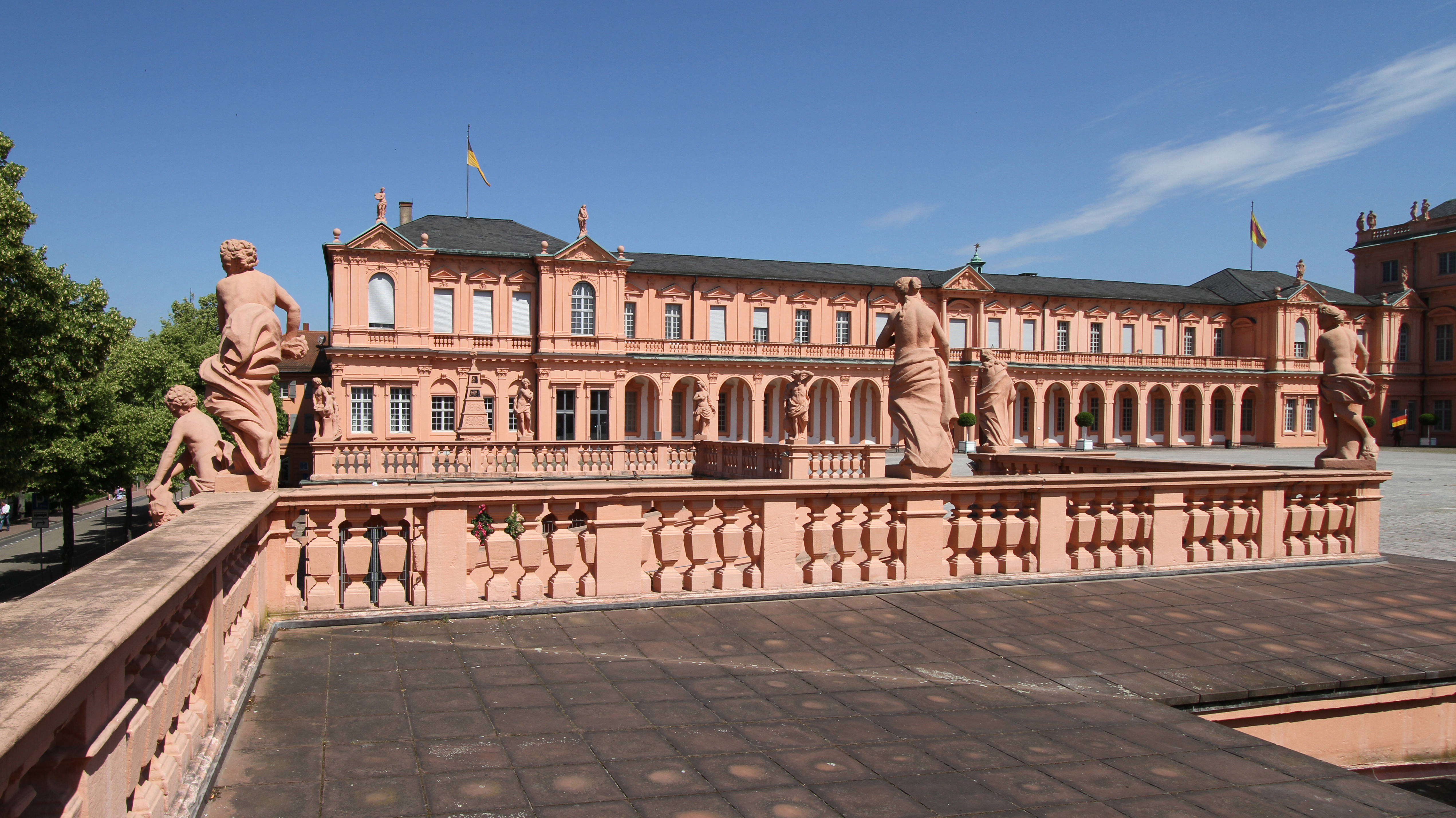 City side of Rastatt Castle.